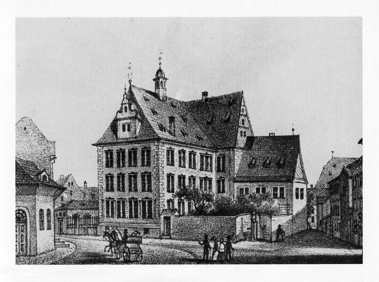 Former building of "Hohe Landesschule" (Hola), a college in Hanau, Hessen, Germany. Building of 16th cent.